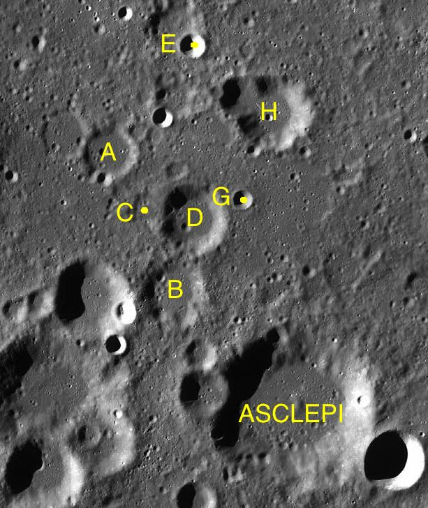 Part of the chart LAC-127 used for the presentation.